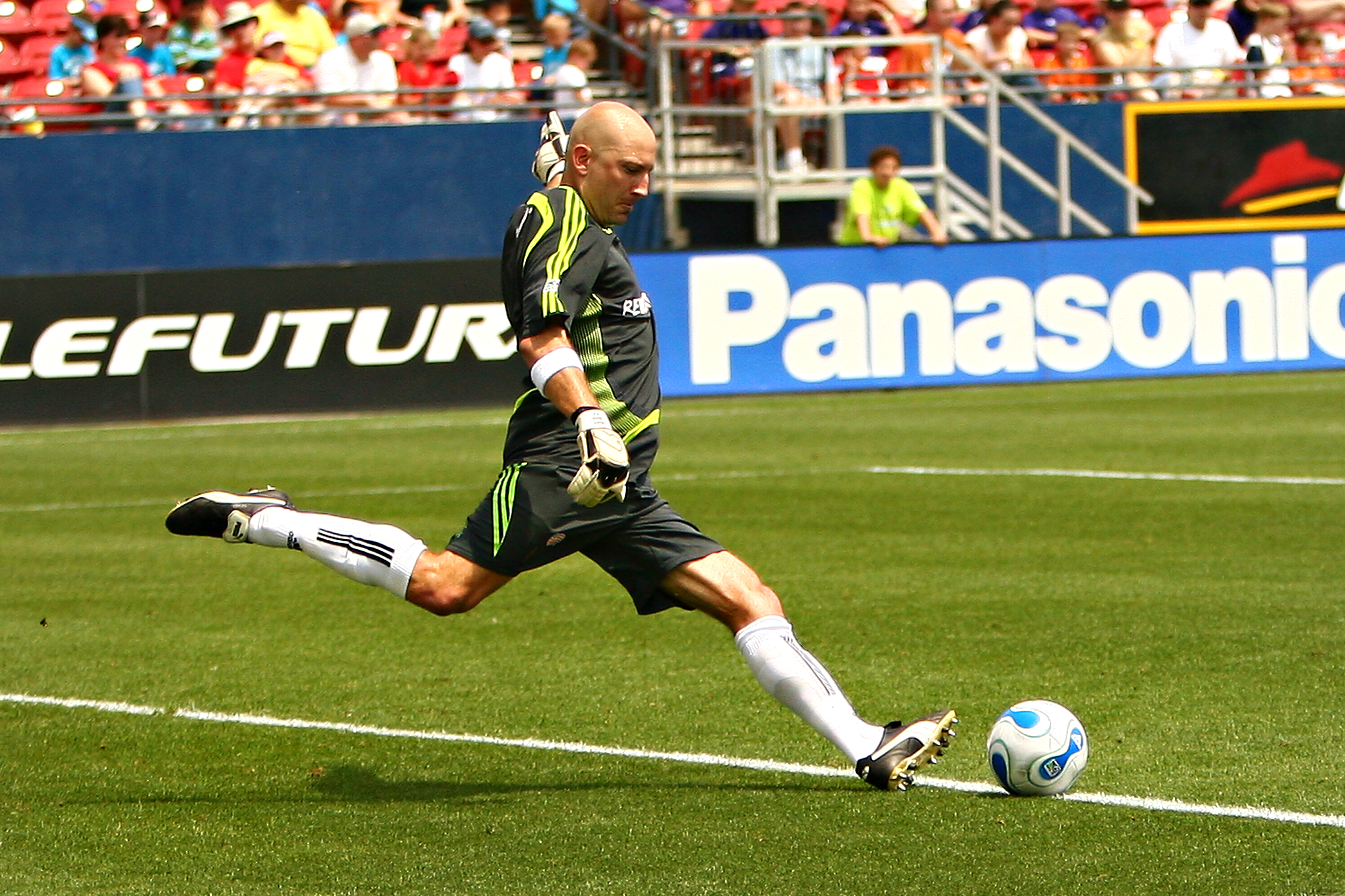 Matt Reis of New England Revolution